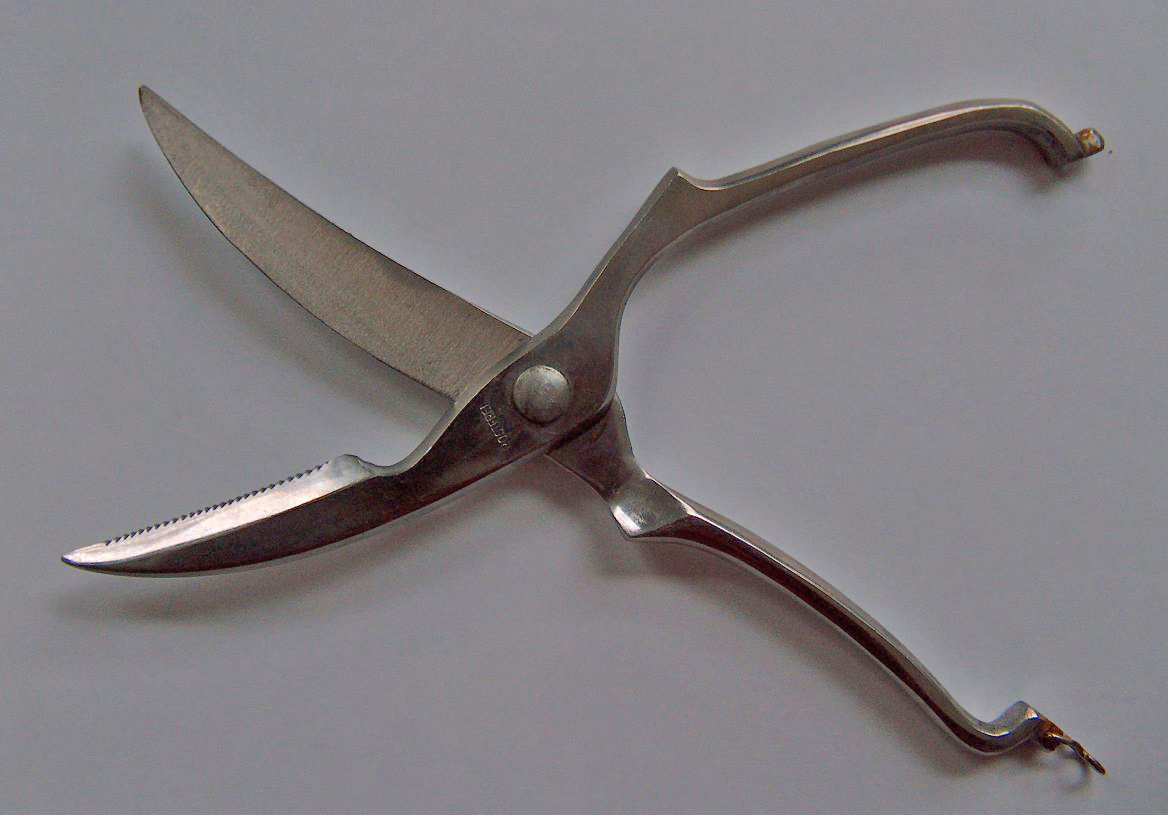 Poultry shears